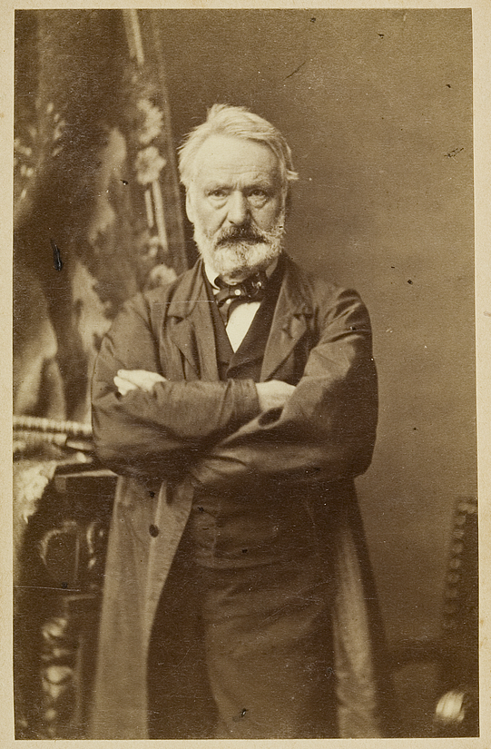 Carte de visite of Victor Hugo